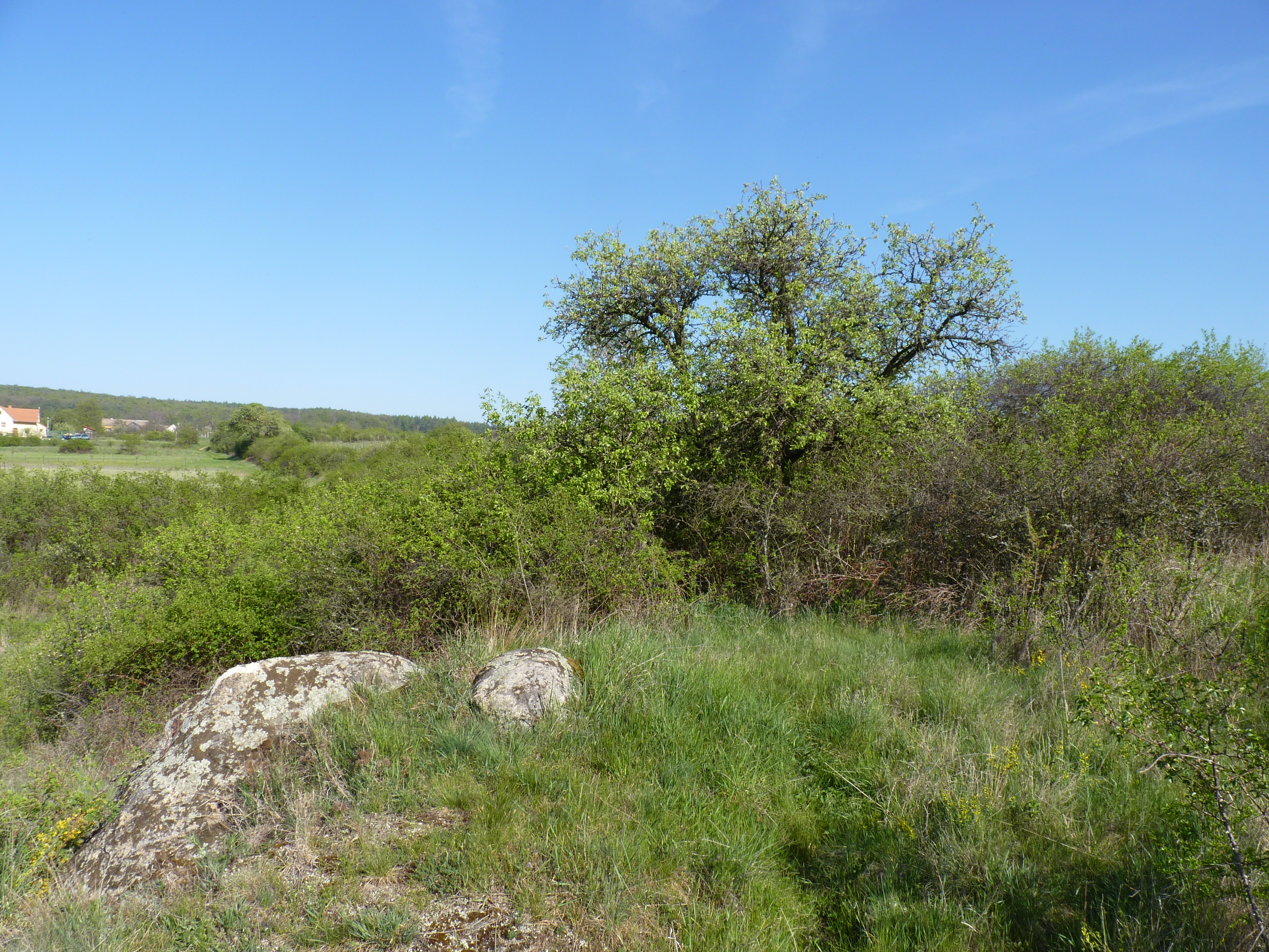 Natural monument "Horáčkův kopeček". Znojmo District, South Moravian Region, Czech Republic Project: Chráněná území